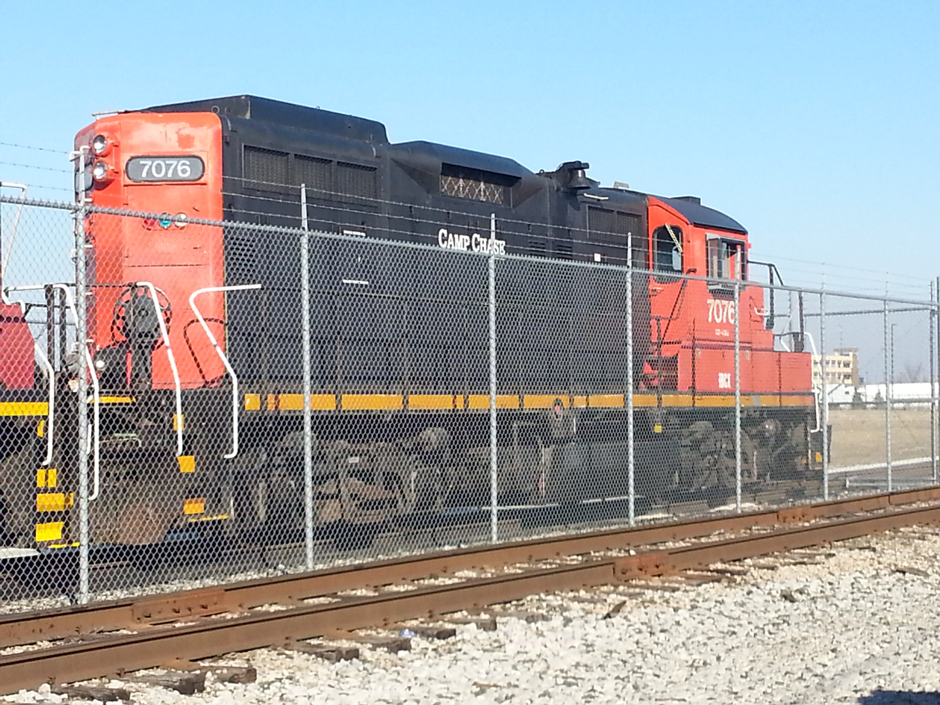 Camp Chase Industrial Railroad engine number 7076